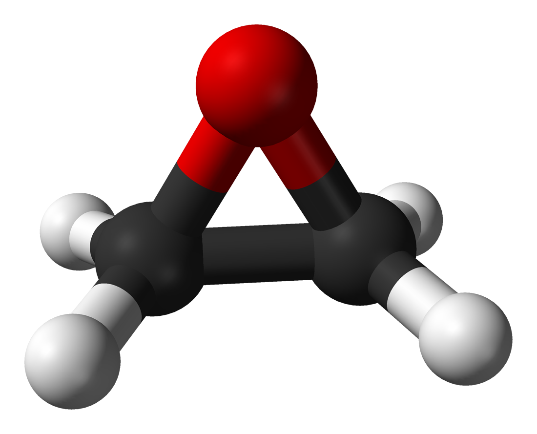 Ball-and-stick model of the ethylene oxide molecule, as found in the crystalline state at 100 K. X-ray diffraction data from S. Grabowsky, M. Weber, J. Buschmann and P. Luger (2008). "Experimental electron density study of ethylene oxide at 100 K". Acta. Cryst. B64 (6): 397-400. Image generated in Accelrys DS Visualizer.